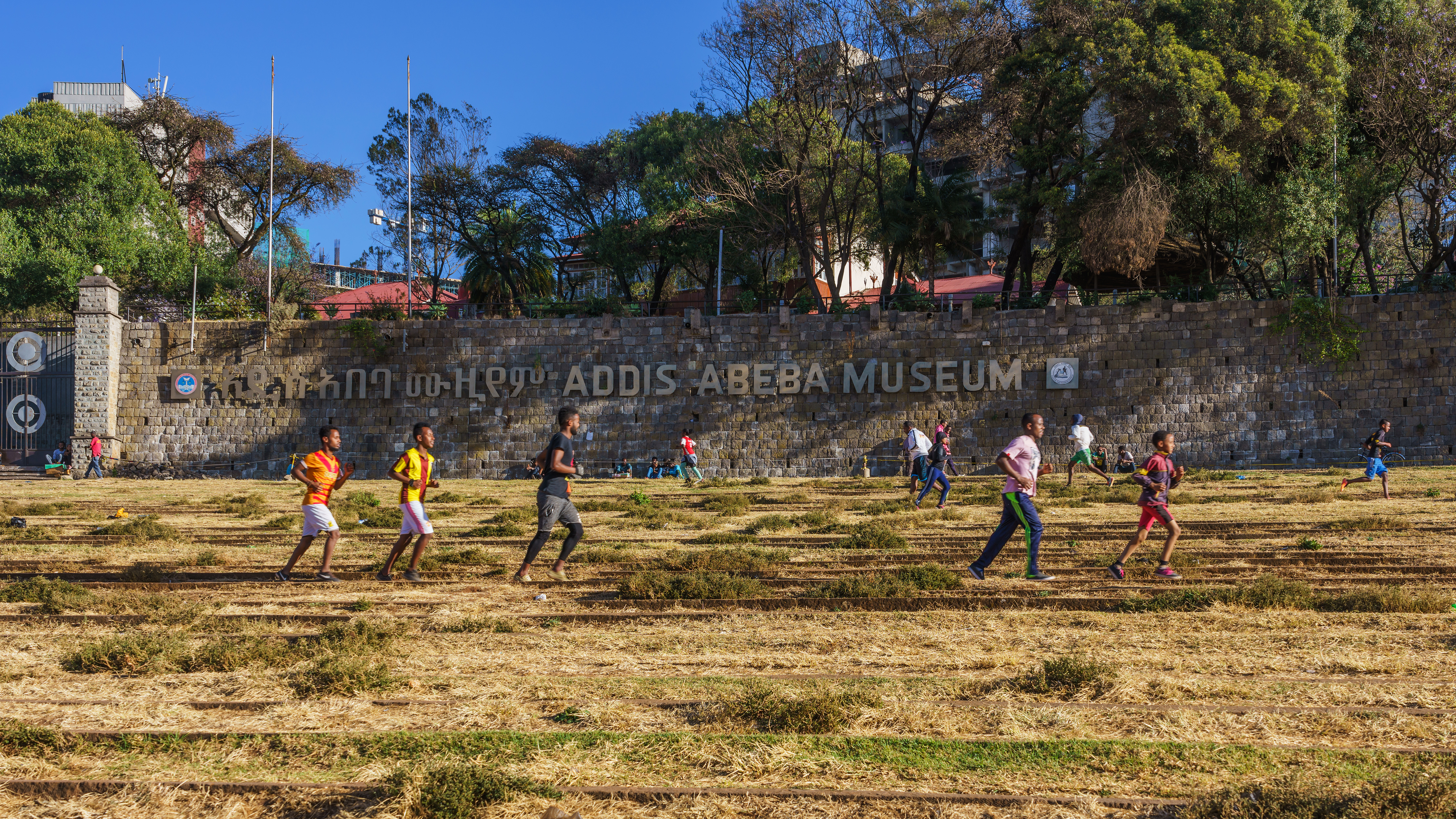 Square in front of the Addis Abeba Museum in Addis Ababa, Ethiopia. In the foreground, runners are training.